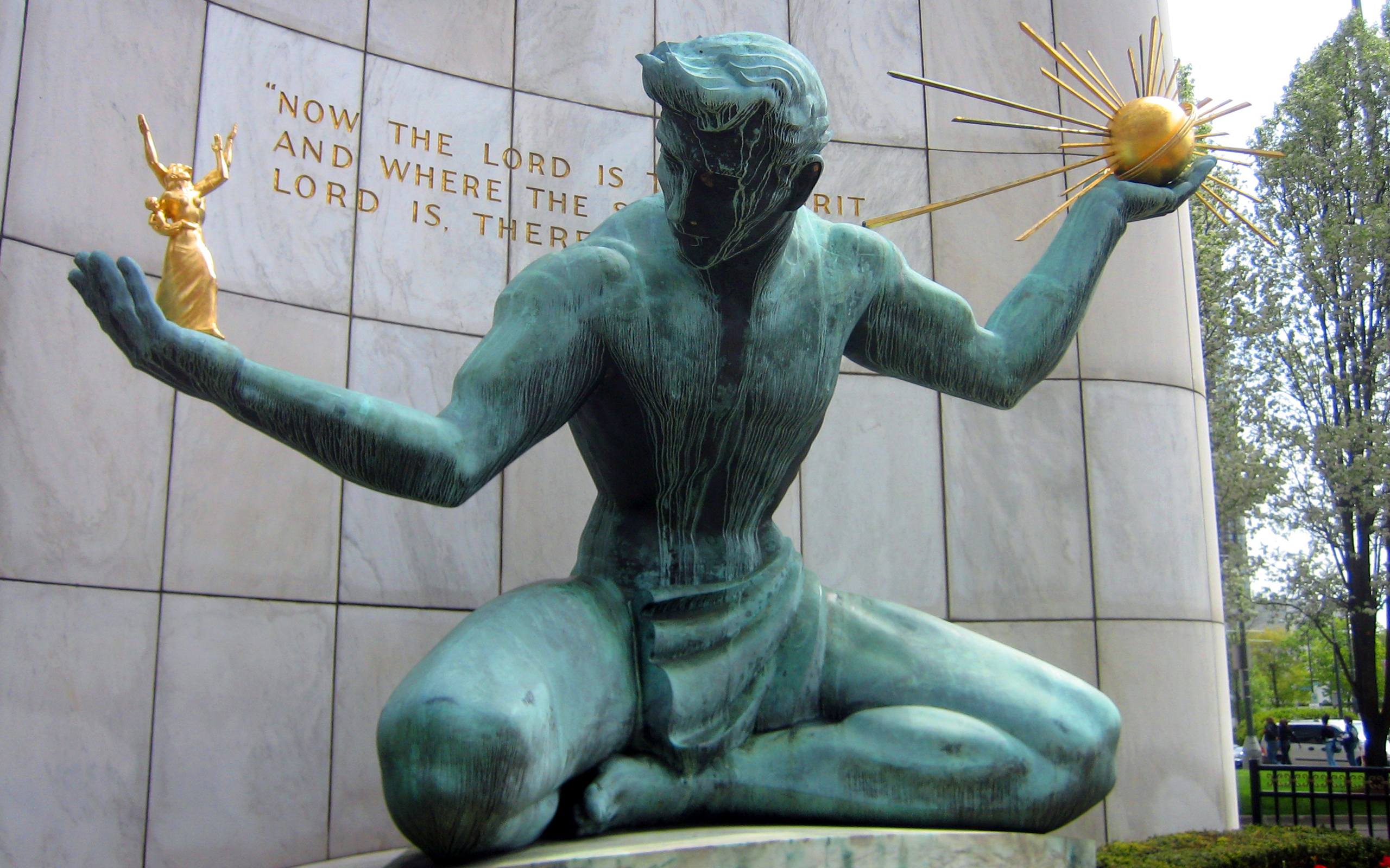 The Spirit of Detroit — by Marshall Fredericks (1908-1998). Commissioned in 1955, dedicated in 1958 at the Coleman A. Young Municipal Center in downtown Detroit, Michigan.